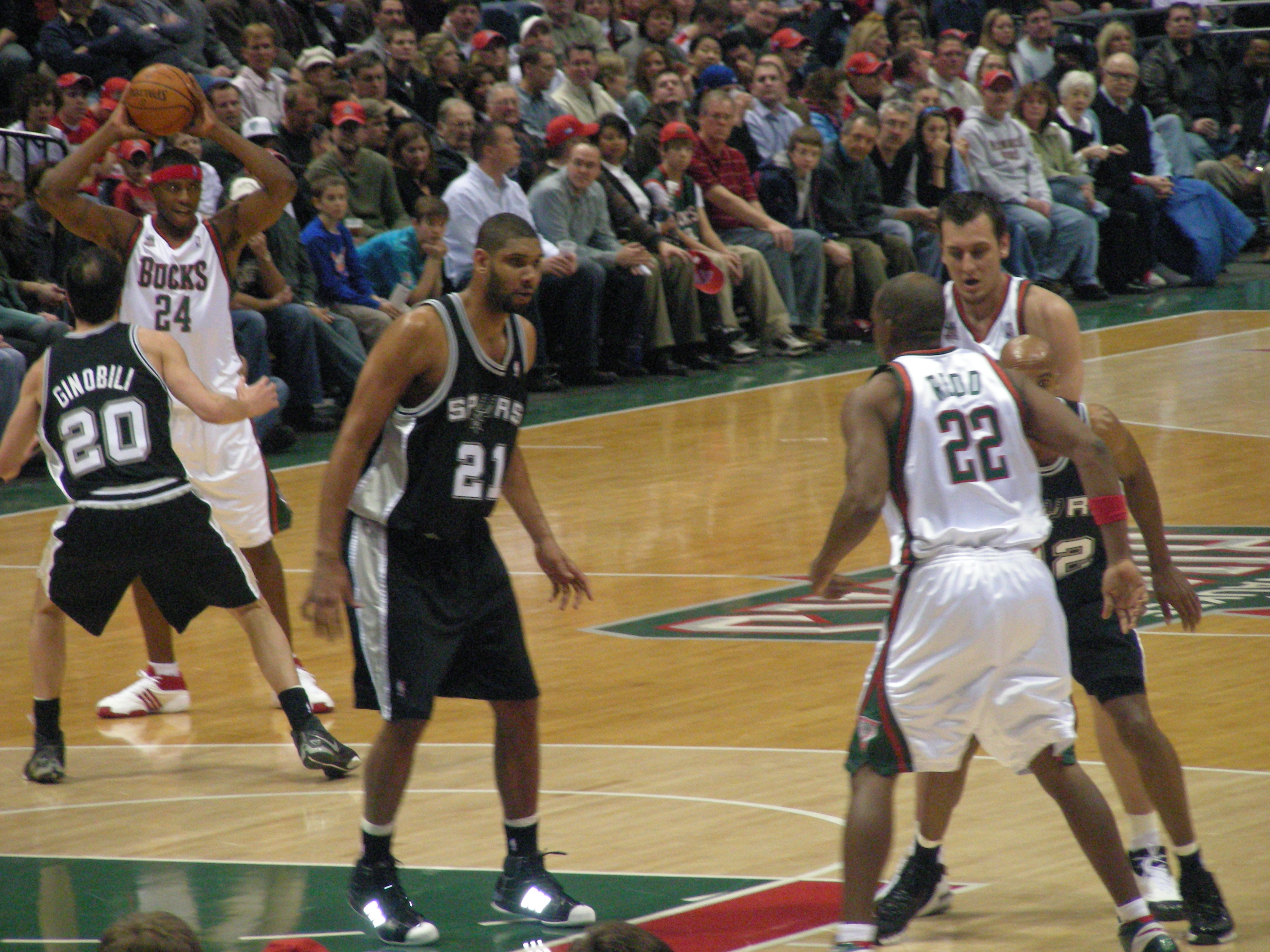 Tim Duncan of the San Antonio Spurs defends the paint against the Milwaukee Bucks.